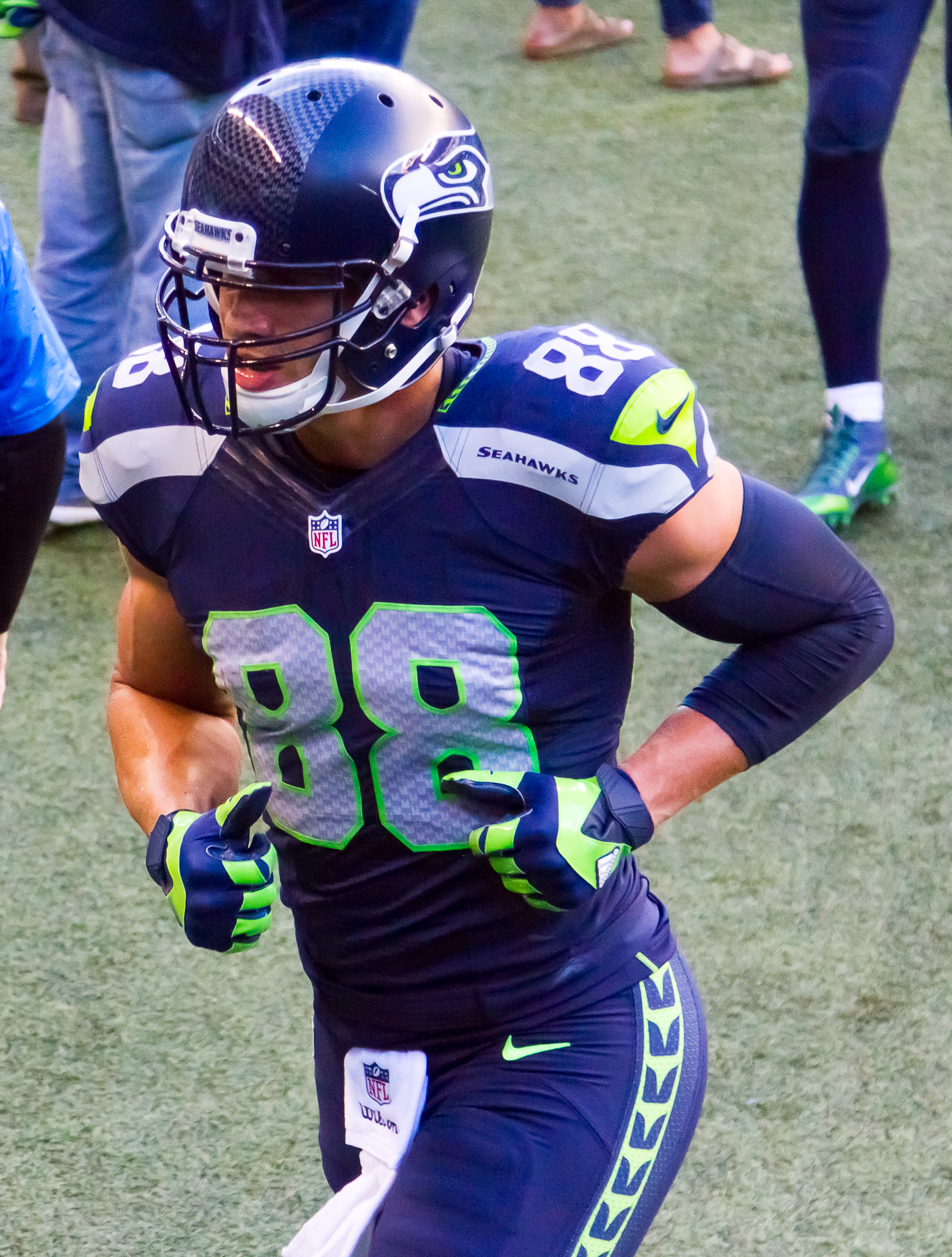 2015 preseason